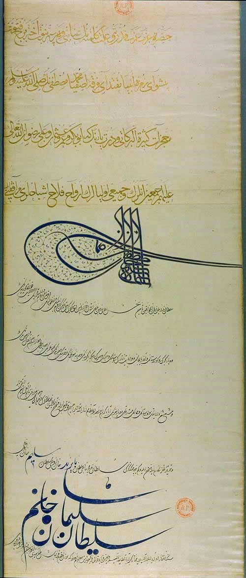 Letter_of_Suleiman_to_Francis_I_1536_beginning_of_French_embassy_at_Ottoman_court_bnf067.